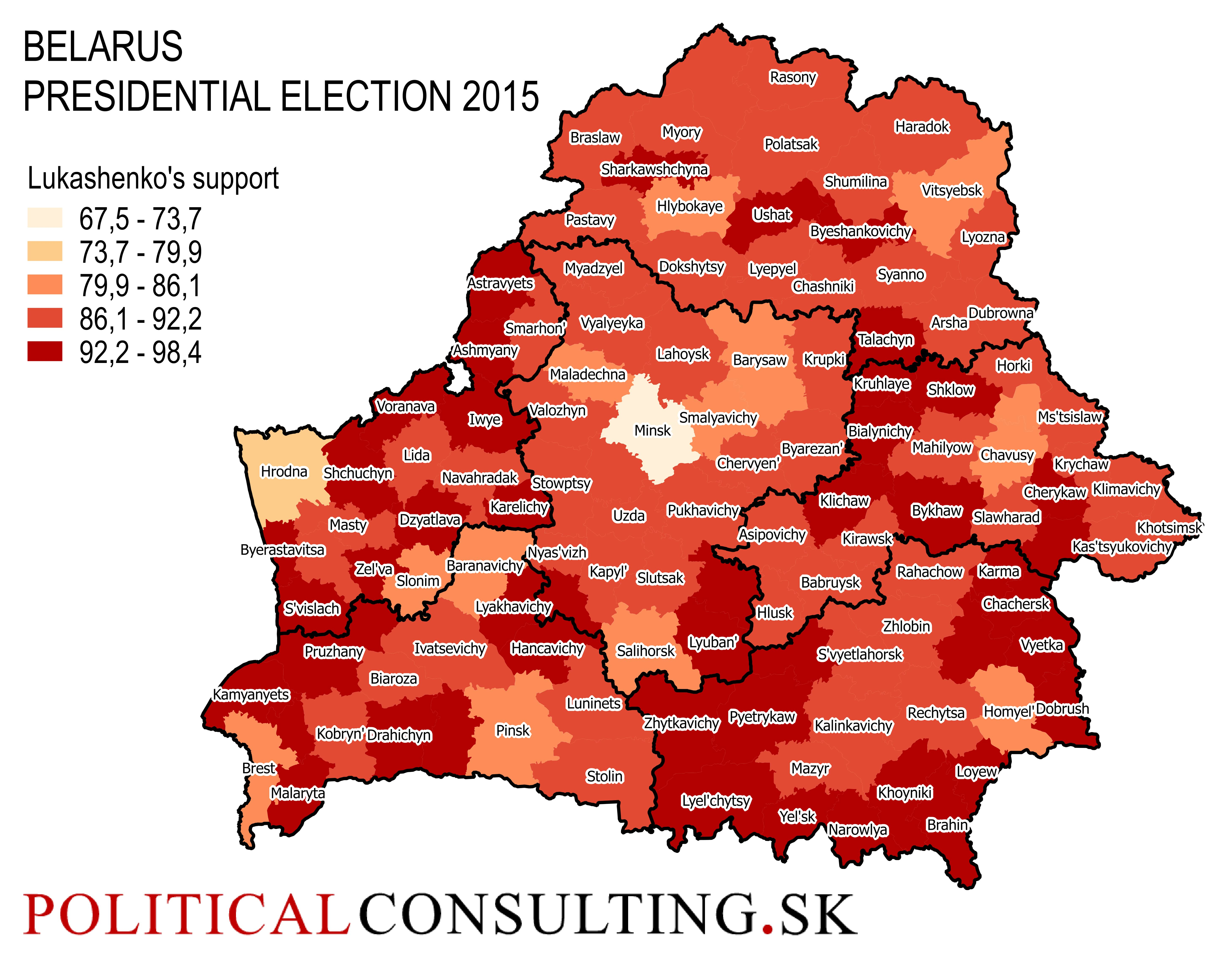 Map presenting spatial distribution of Lukasenko's support due to the official election results.